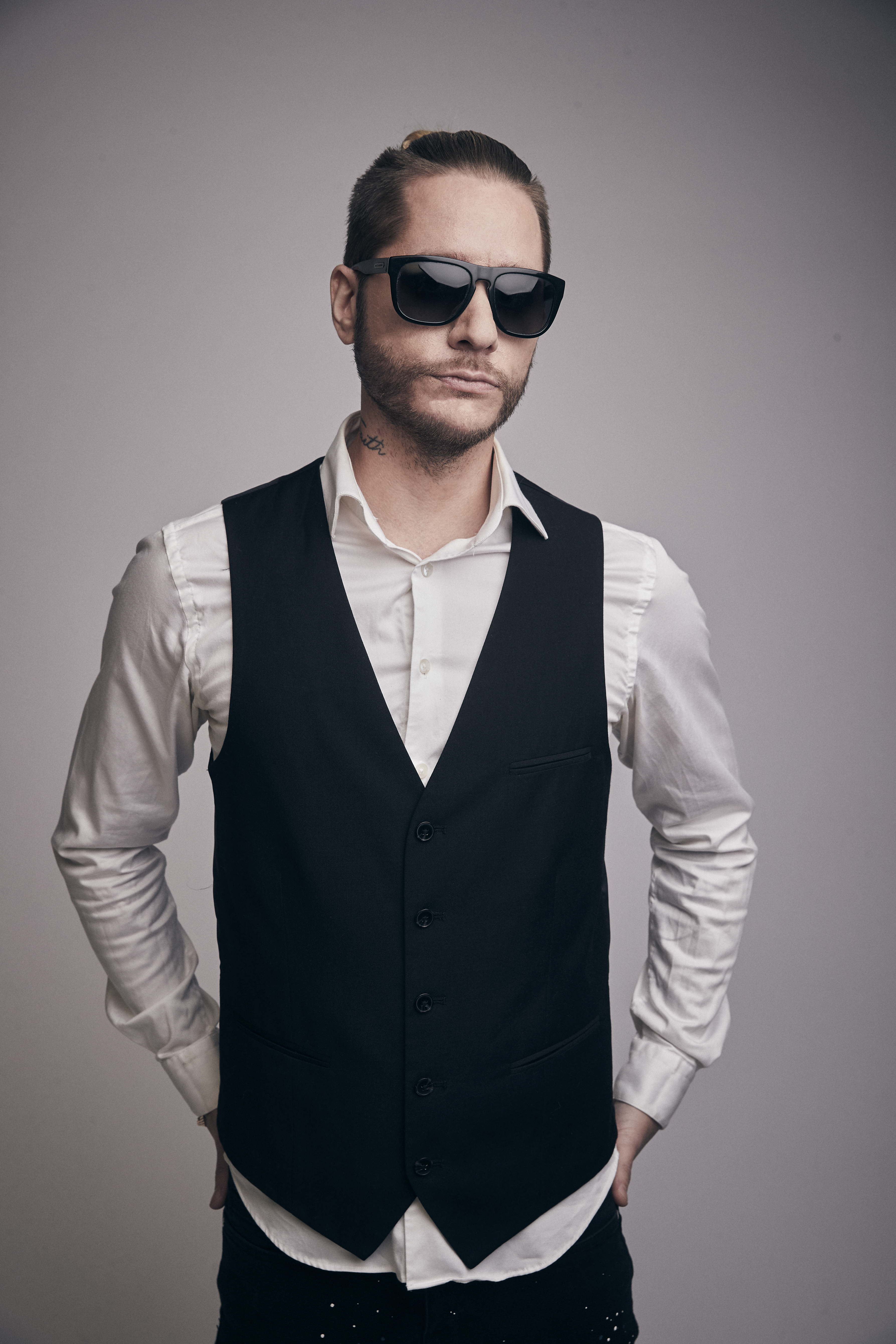 Wasted Penguinz - Press 2020